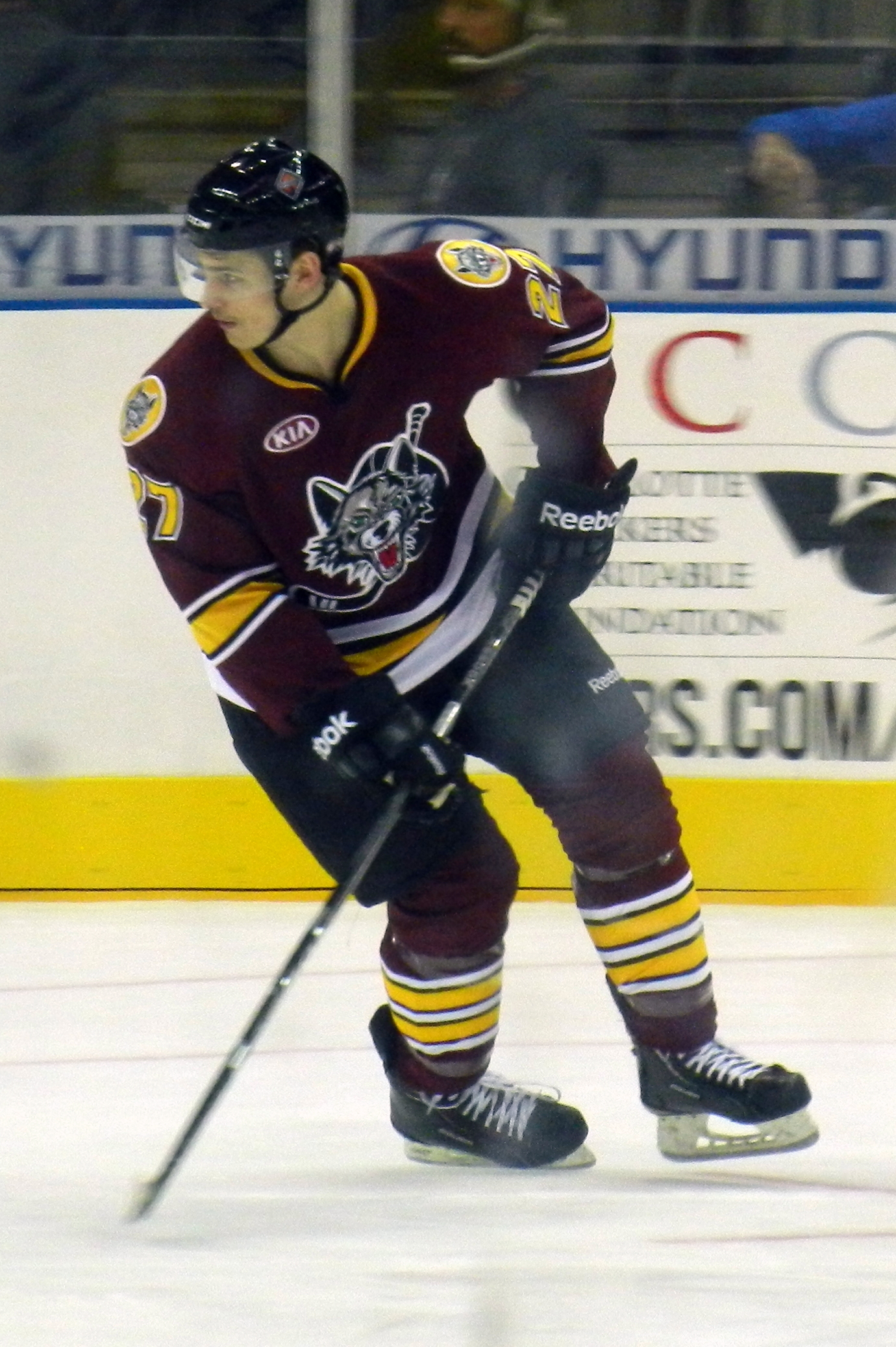 Alex Mallet playing for the Chicago Wolves during the 2012-13 AHL season